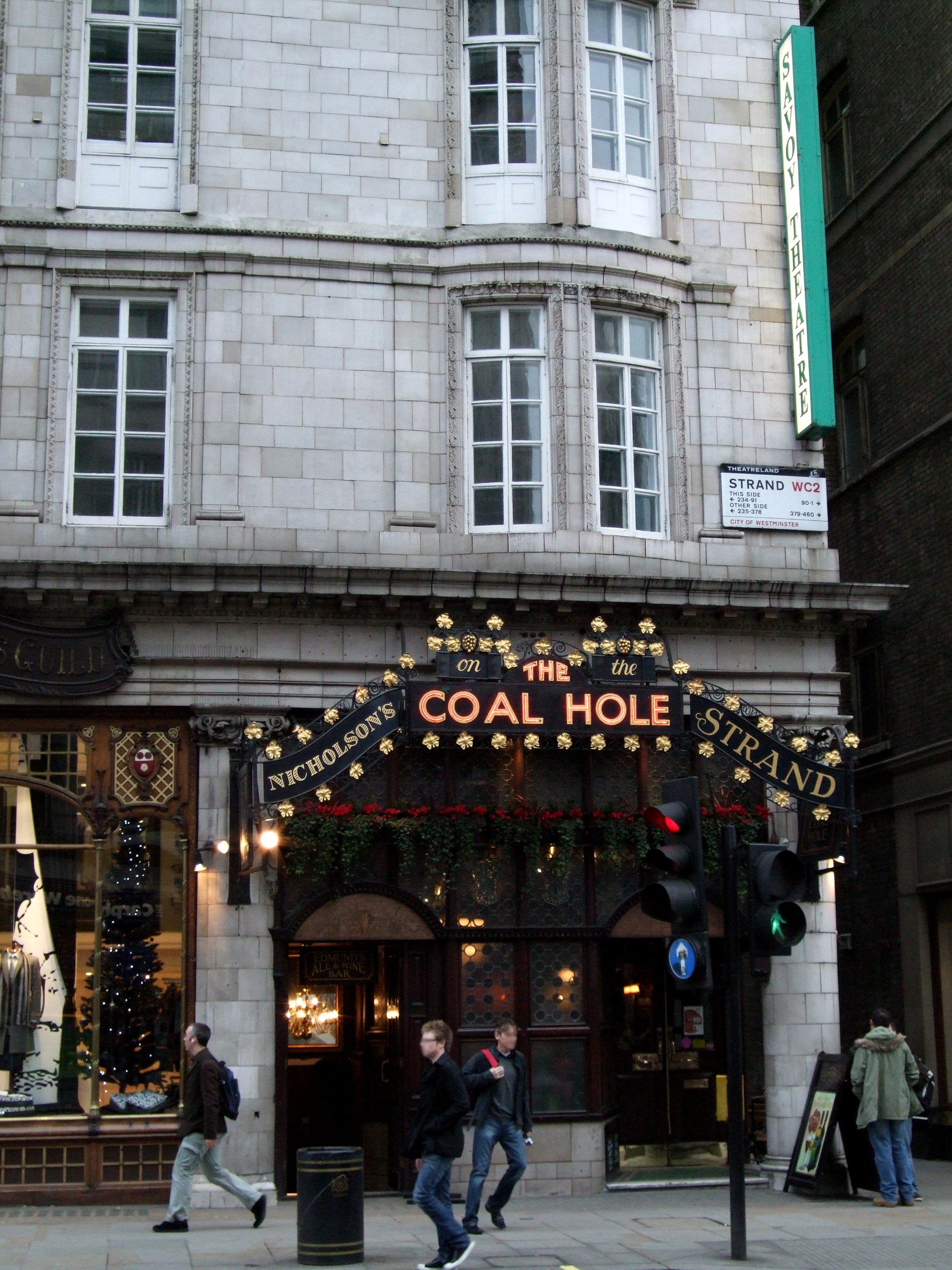 Colourful front for this pub. (View of rear entrance.) Address: 91 Strand. Former Name(s): The Salisbury Tavern. Owner: Mitchells and Butlers [Nicholson's] (website). Links: Randomness Guide to London Fancyapint Beer in the Evening